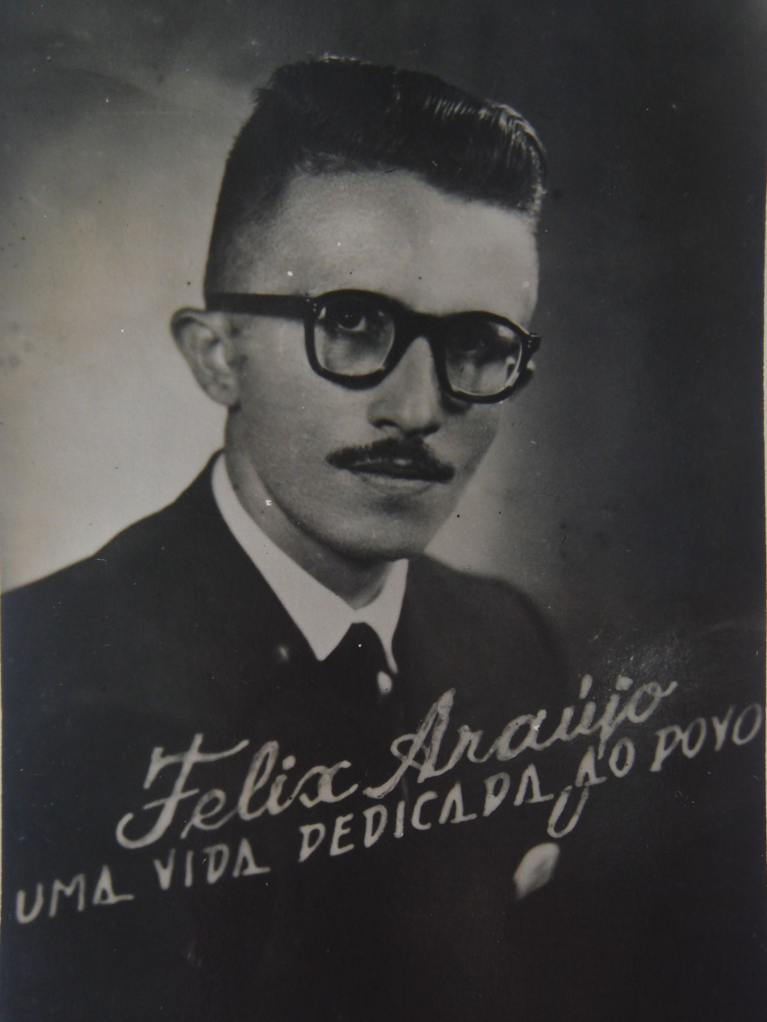 Felix de Sousa Araujo, Politician from Paraíba, Brazil